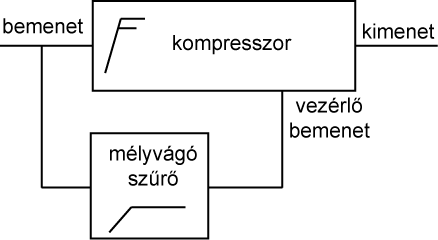 de-esser